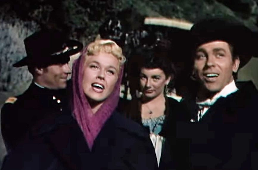 L. to R. : Philip Carey, Doris Day, Allyn Ann McLerie & Howard Keel in Calamity Jane - trailer (cropped screenshot)